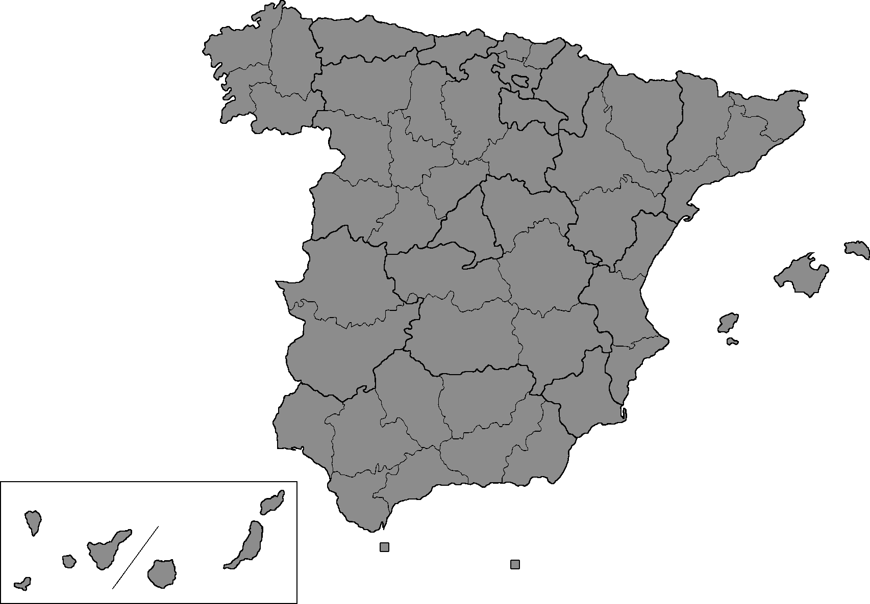 Spain blank provincial map